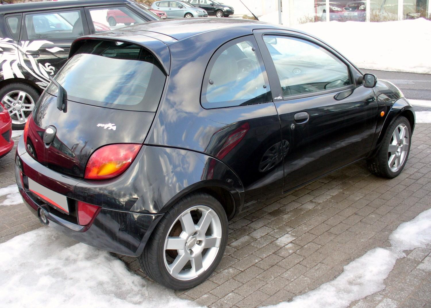 Ford SportKa